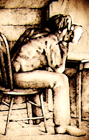 21st century artistic interpretation of Joseph Smith translating the Book of Mormon